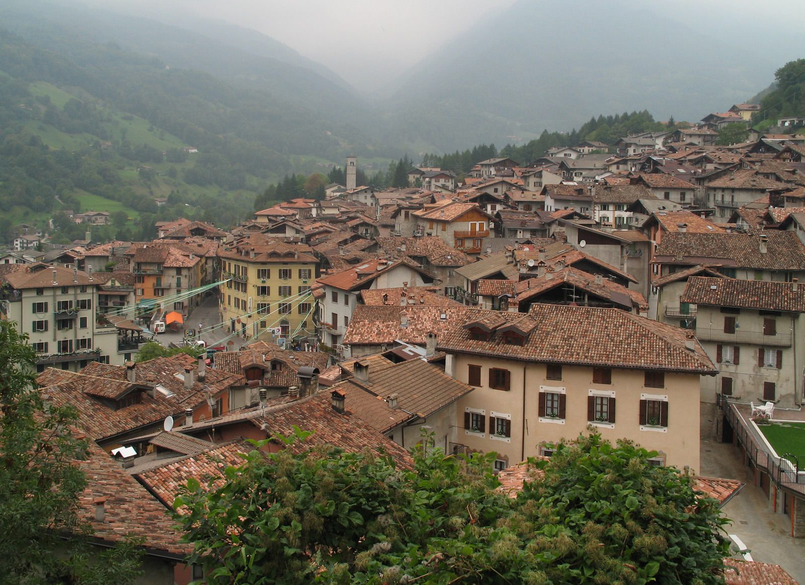 Village of Bagolino, located near Lake Garda in the province of Brescia/Italy